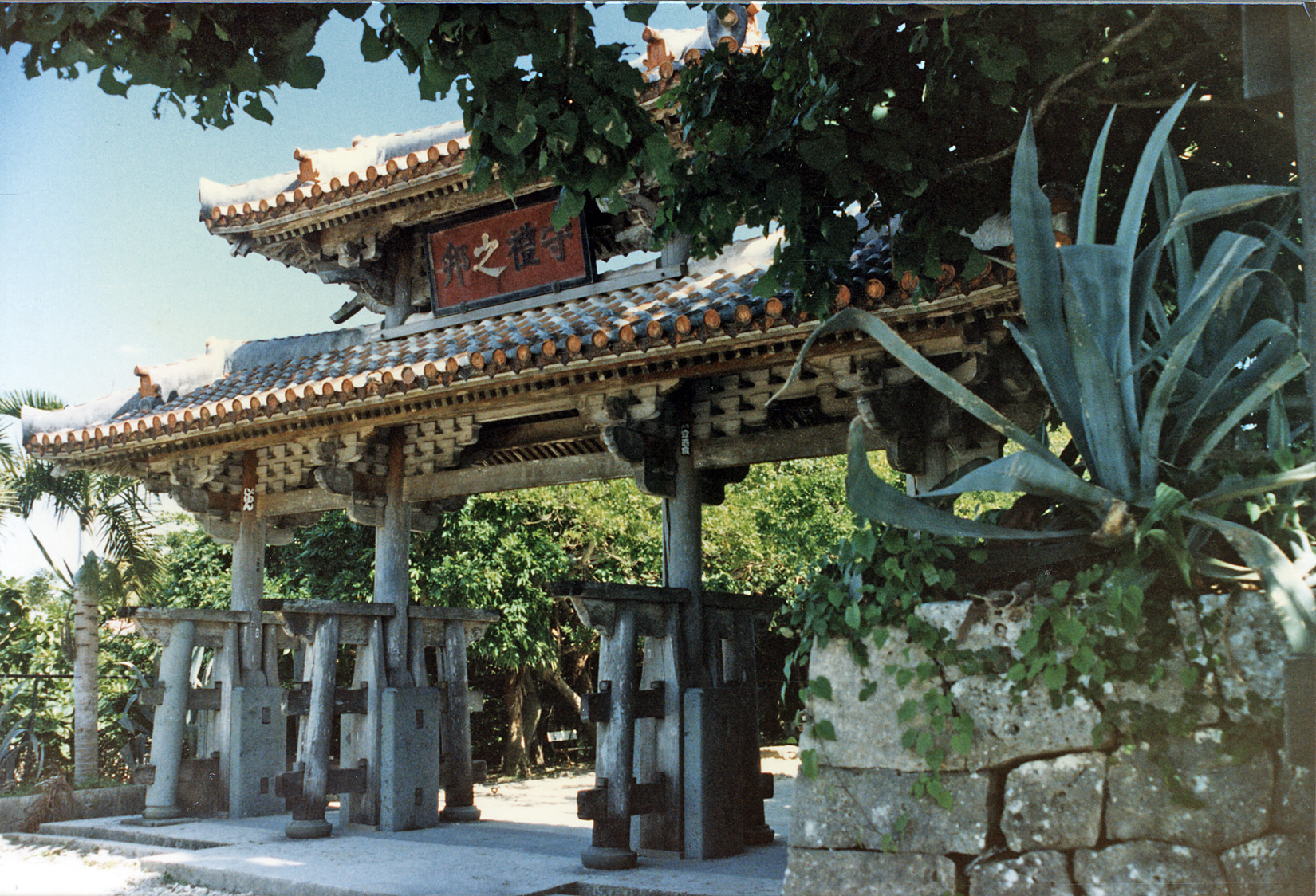 This photograph shows the Shurei no mon, a gate in the city of Naha, Okinawa, Japan. I took this photo. Old scan of this photo This scan of same photo